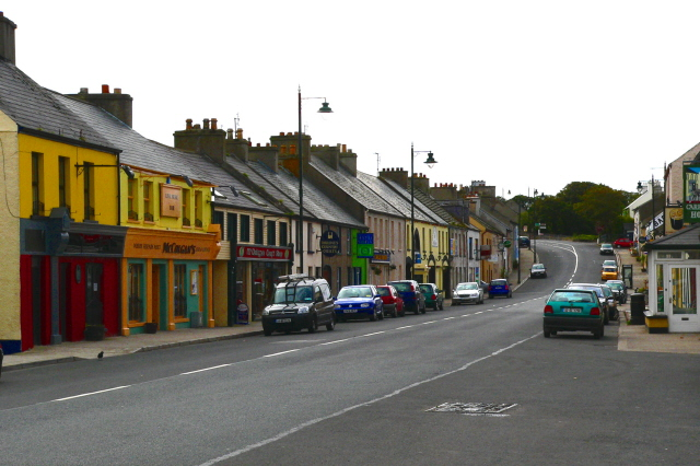 Dunfanaghy - Main Street (N56) Main street (N56) through town is not very long. It is lined with some colourful shops and pubs. The road to Horn Head is to the right off N56 as it enters town in the background.